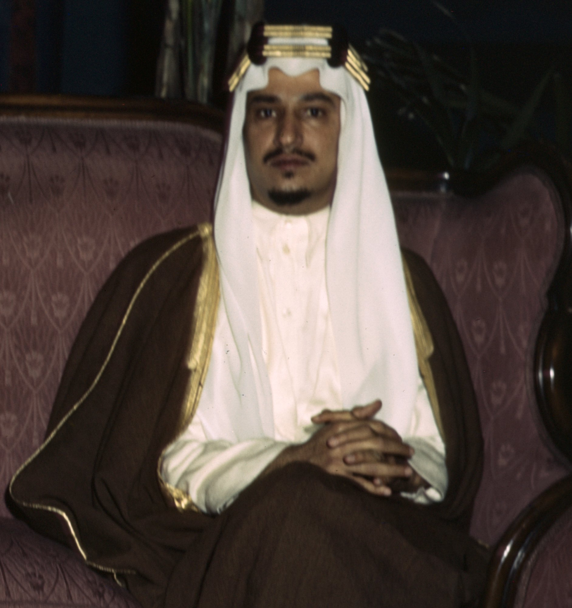 Amir Khalid, son of King Ibn Saud of Saudi Arabia.